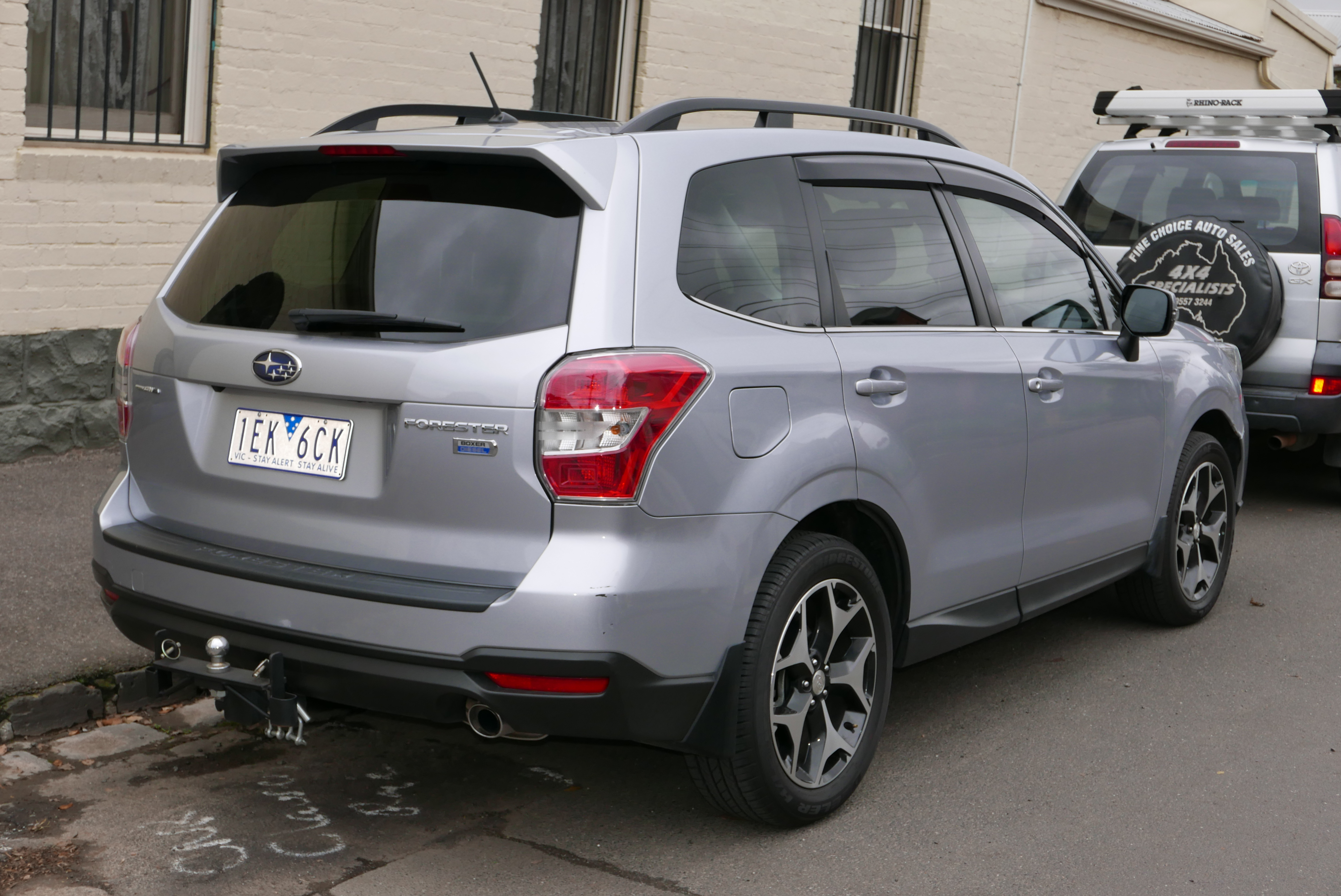 2013 Subaru Forester (SJ MY13) 2.0D-S wagon. Despite the date discrepancy with the vehicle registration information below, a check of the VIN reveals a model year of MY13. Photographed in Fitzroy North, Victoria, Australia. Vehicle registration enquiry results Jurisdiction Victoria Registration 1EK6CK Chassis code JF2SJDKZ3DG018676 Engine code U531397 Compliance date 2014-03 Year of manufacture 2013 (not a typo)